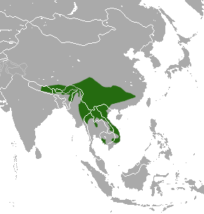 Spotted Linsang (Prionodon pardicolor) range